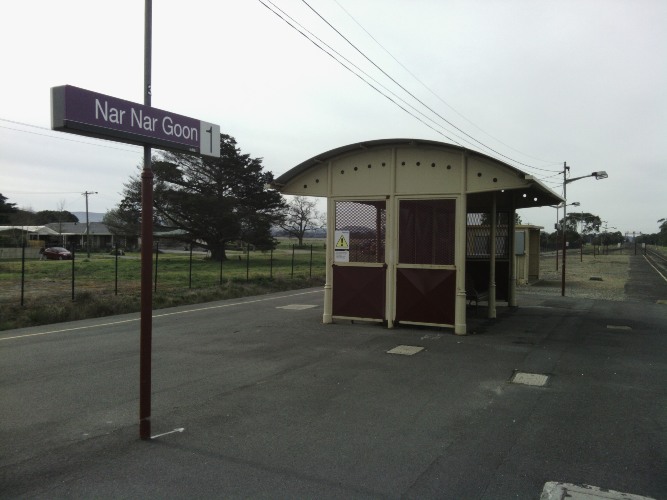 Photograph of the station buildings at Nar Nar Goon railway station.